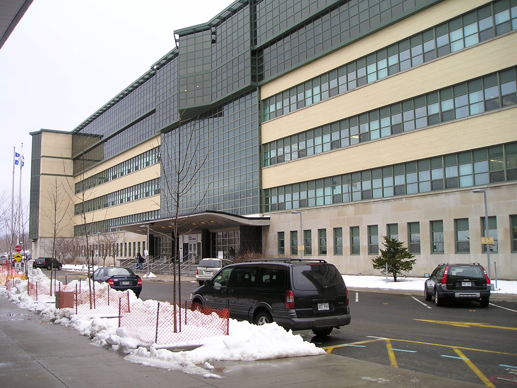 Exterior of the Ecole Polytechnique de Montreal